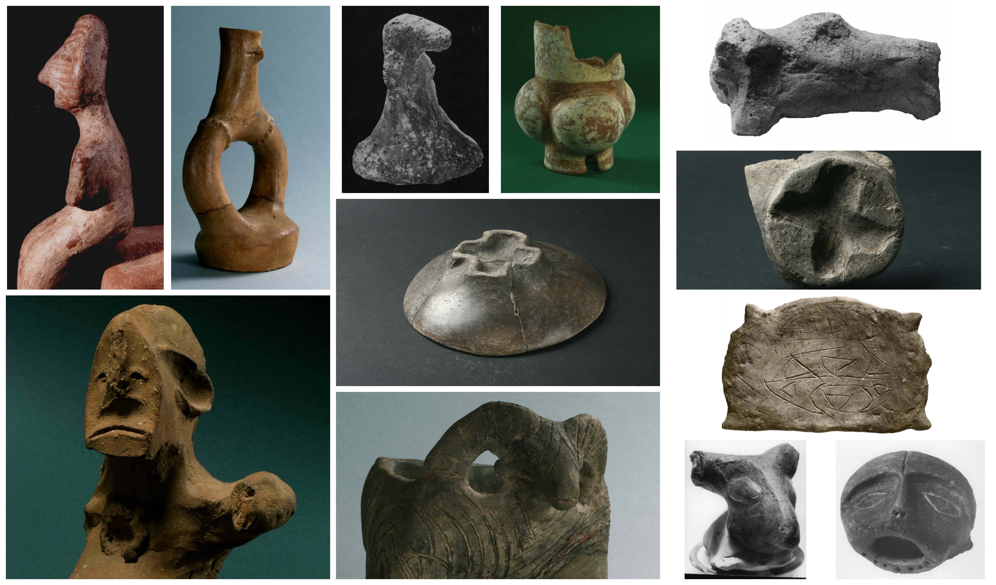 Dolnoslav_artefacts_1